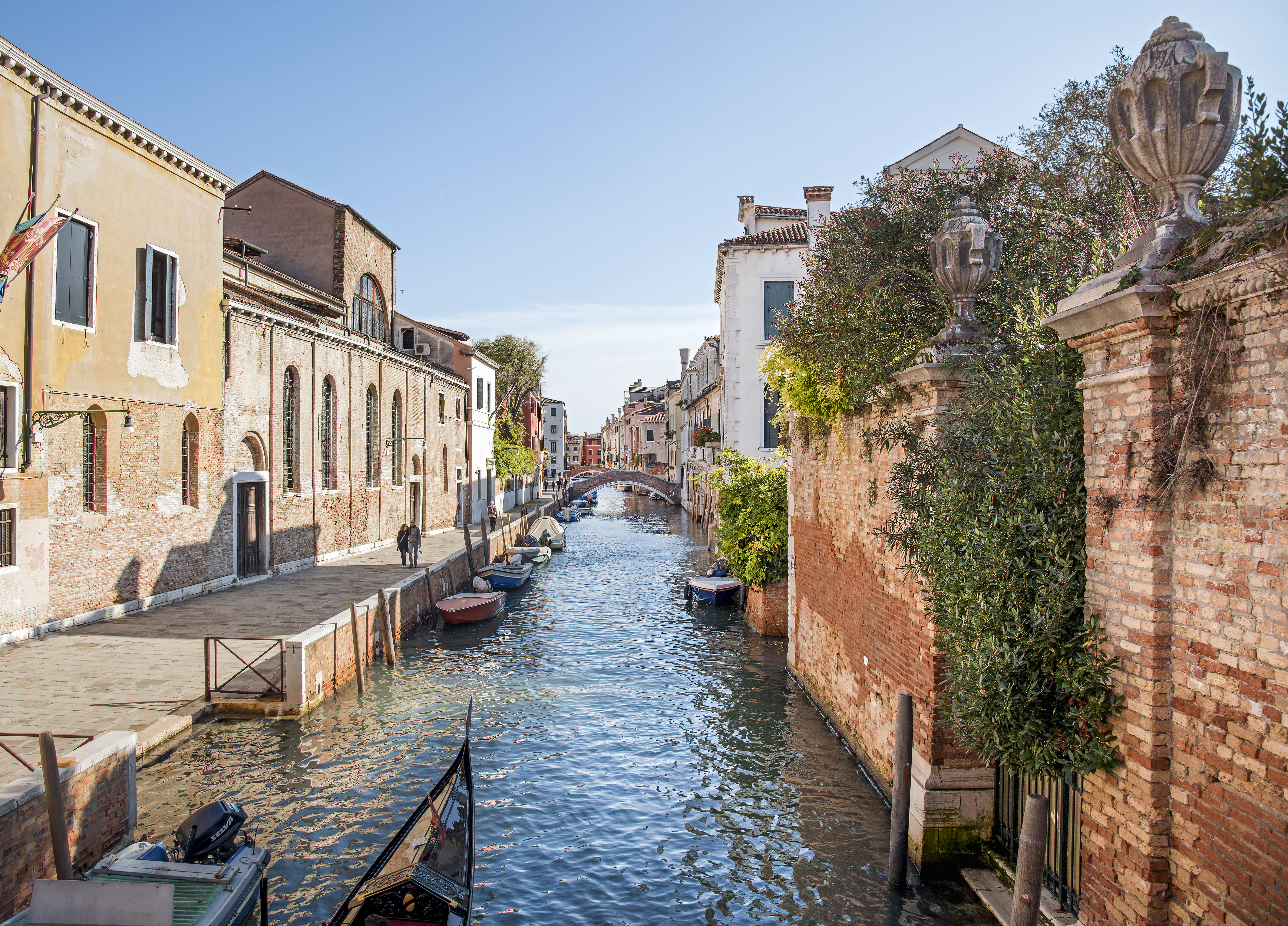 The Rio de Santa Caterina in Venice, viewed from the Ponte Molin de la Racheta